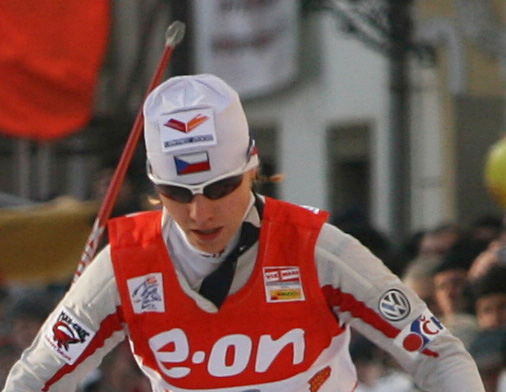 Helena Erbenová (1979), Czech cross-country skier (cropped from File:Helena Erbenova at Tour de Ski.jpg)